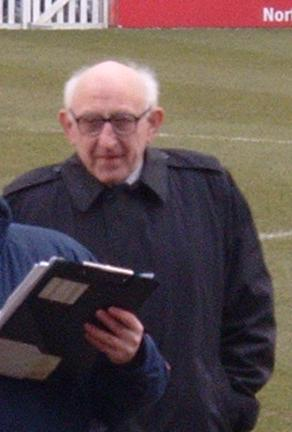 Photo of Norman Wilkinson